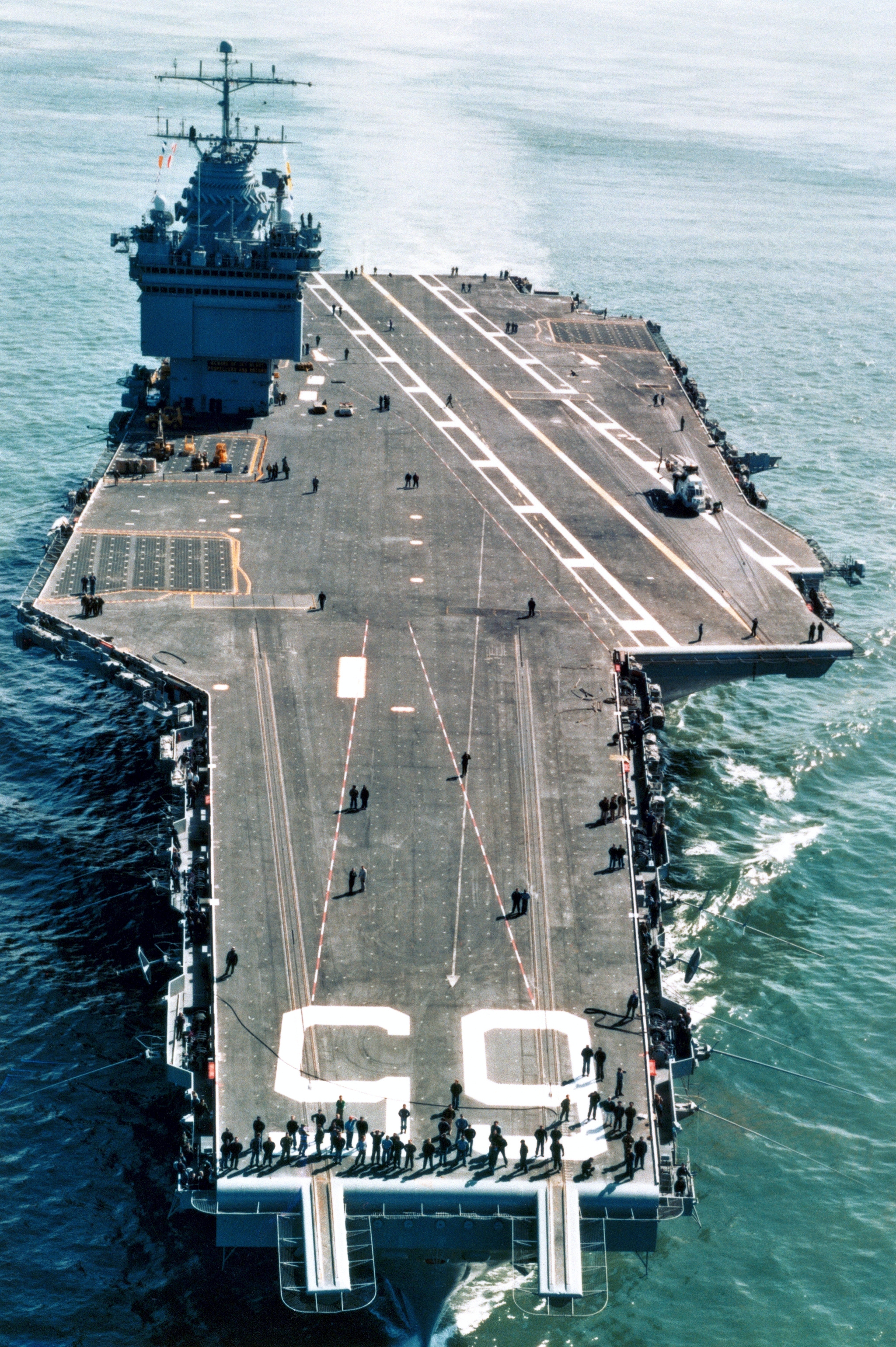 Bow view of the U.S. Navy aircraft carrier USS Enterprise (CVN-65) on 1 January 1978.